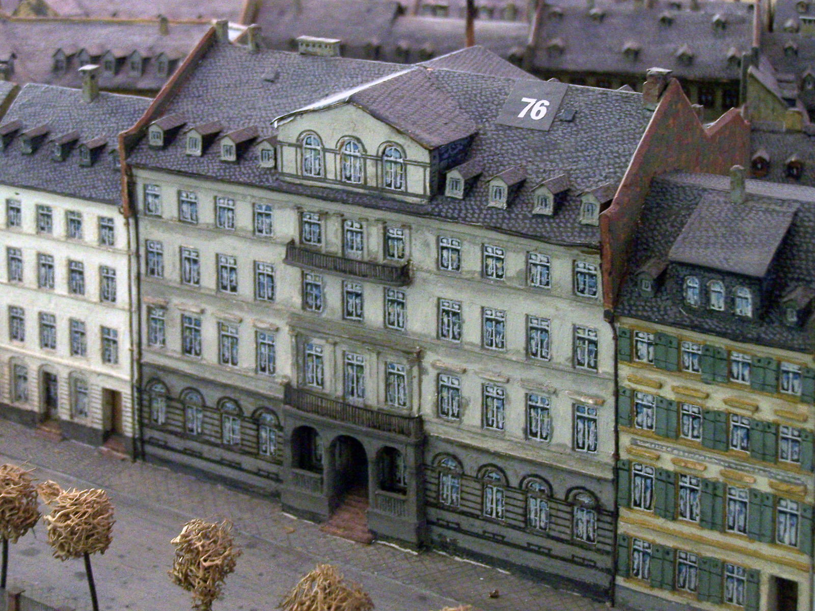 House Schoene Aussicht 16 in the Treuner brothers model of ancient Frankfurt am Main, seen from south